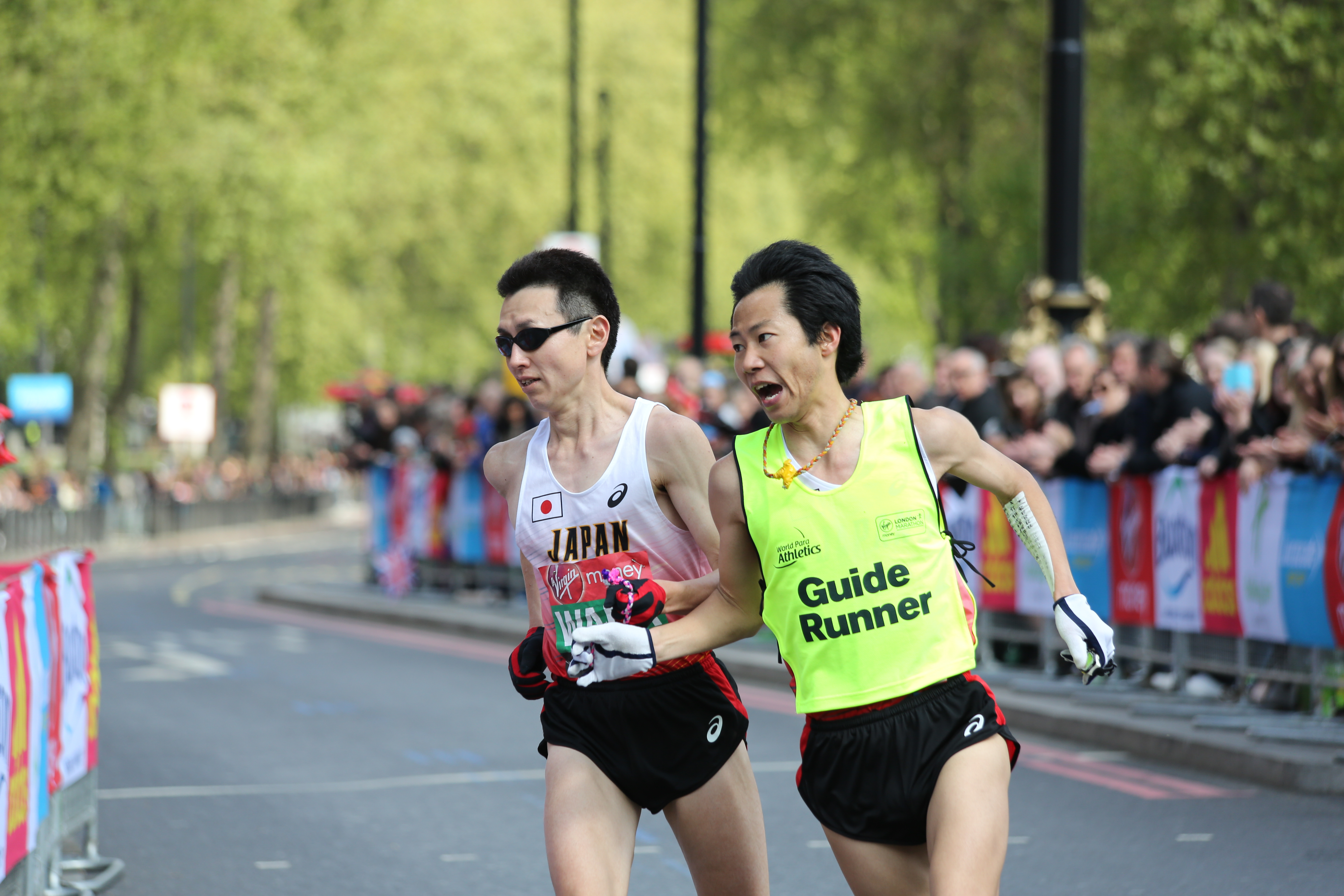 2017 London Marathon – Shinya Wada